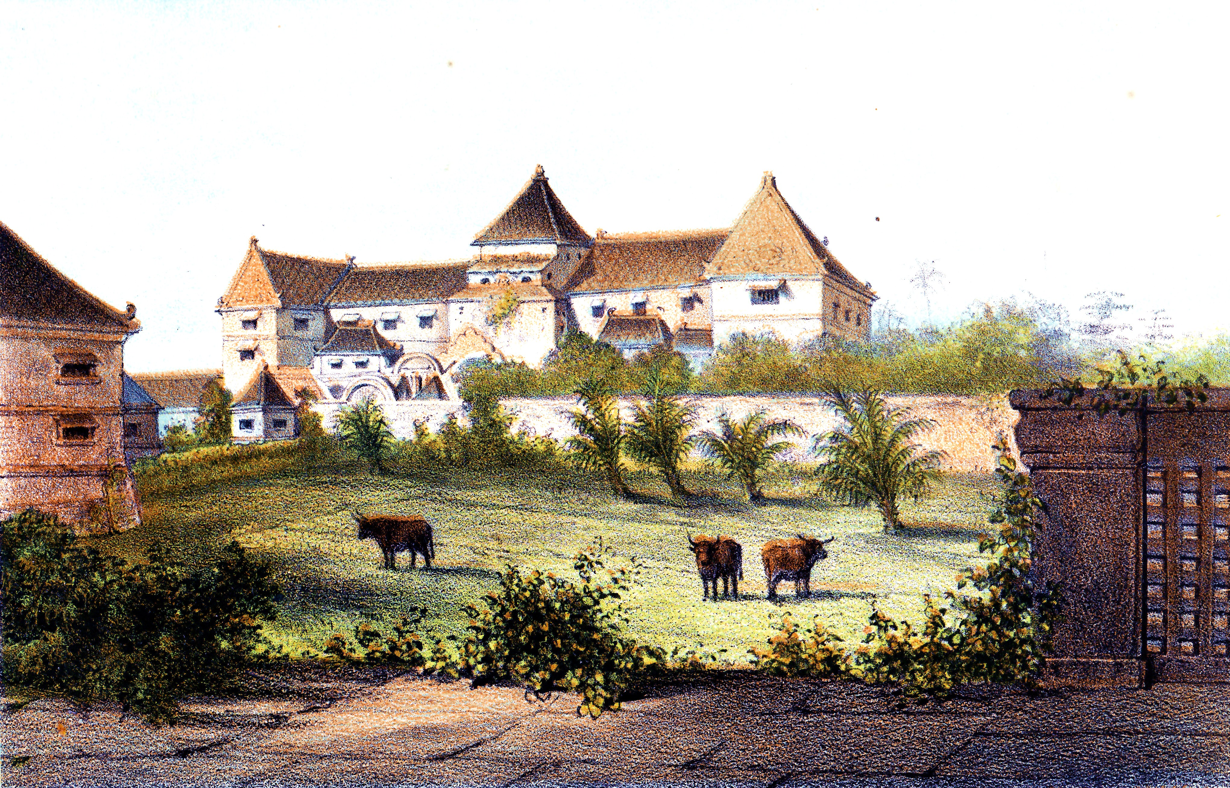 Waterkasteel van Djokjakarta